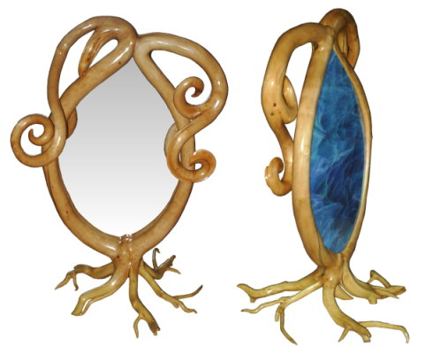 Photo is from Pooktre with permission from Peter Cook and Becky Northey the owners.